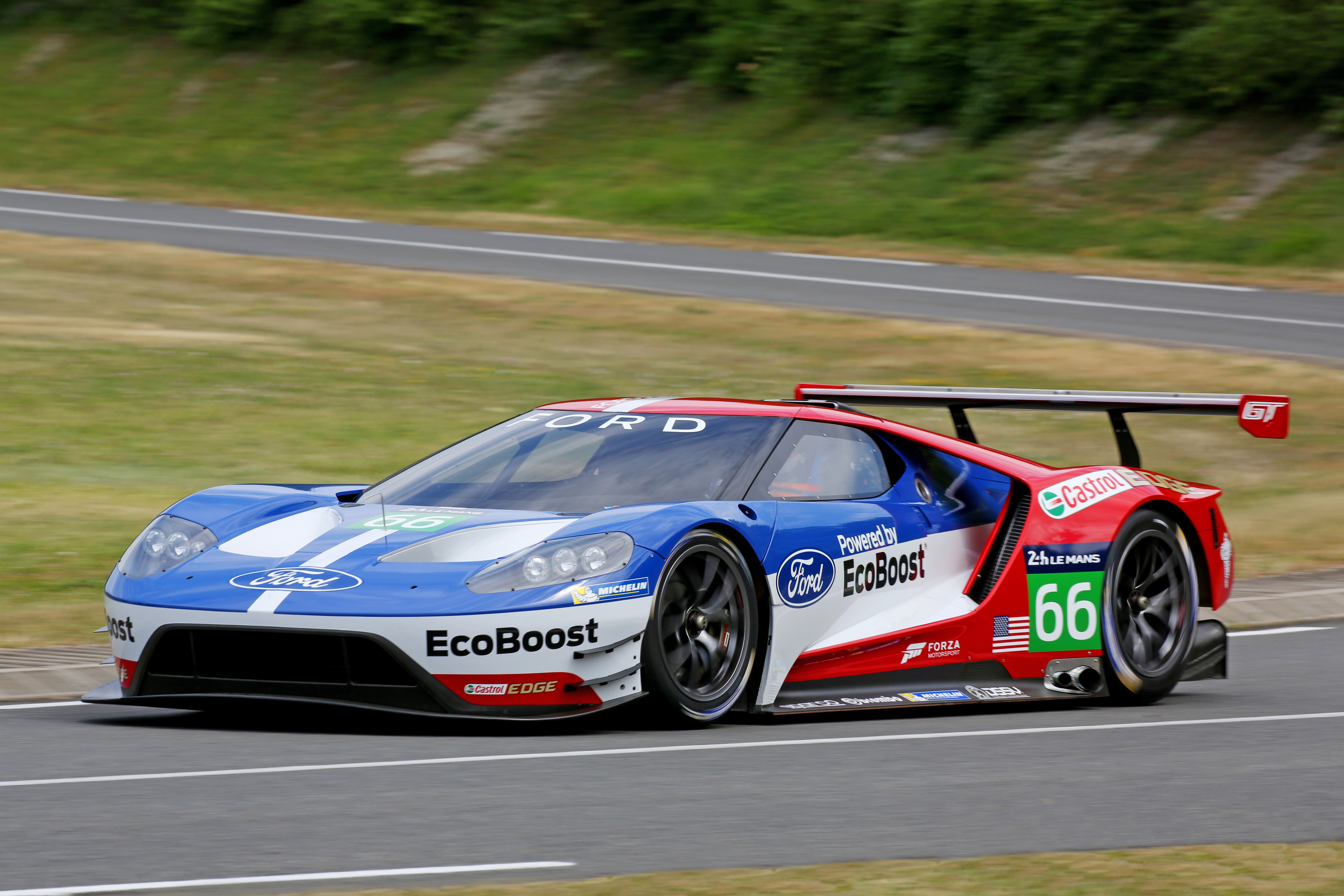 The Ford GT (2nd Generation) Le Mans GTE car. Set to compete at the 24 Hours of Le Mans in 2016.